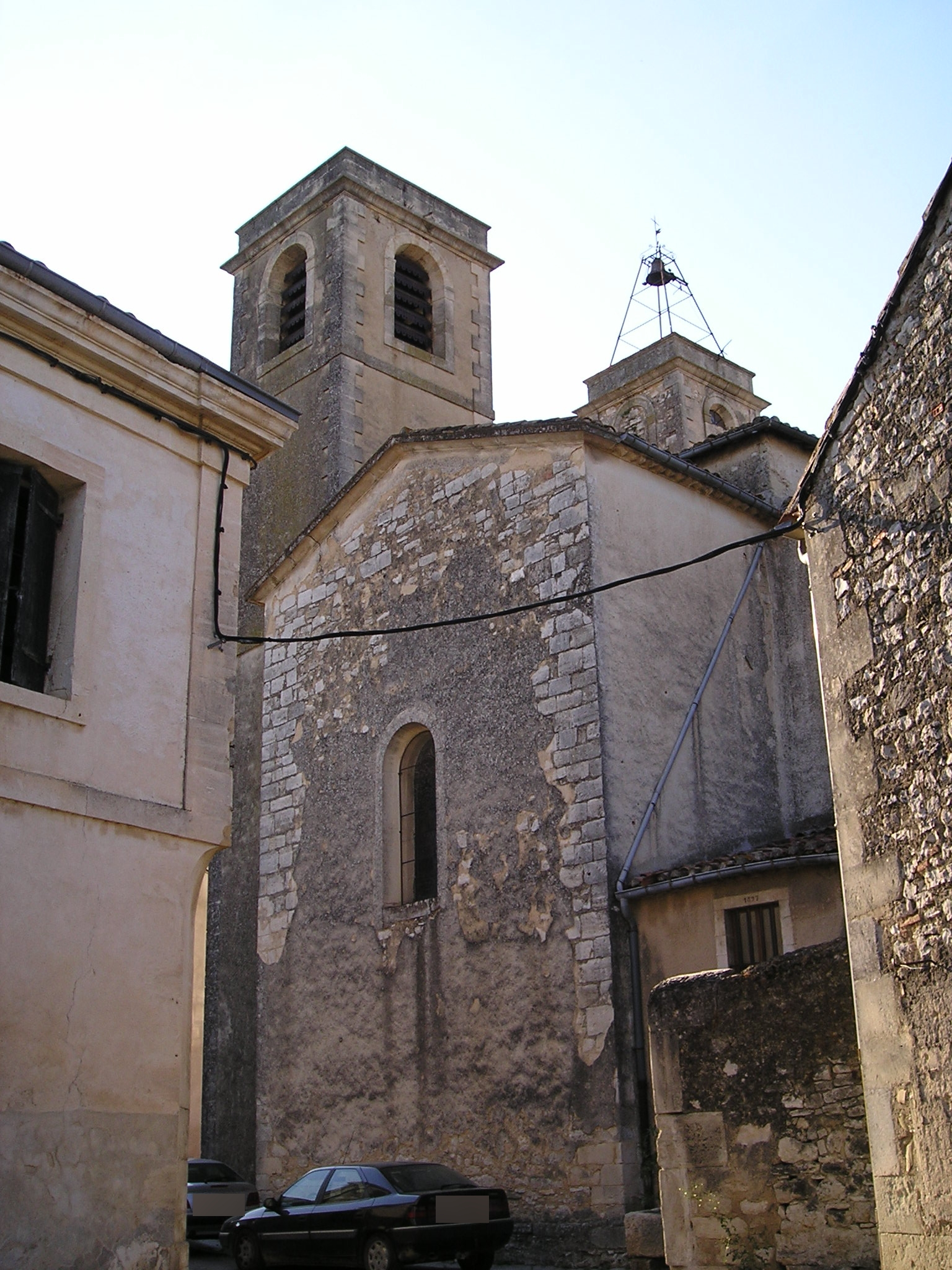 In Hérault, France, the church of Galargues viewed from the back.